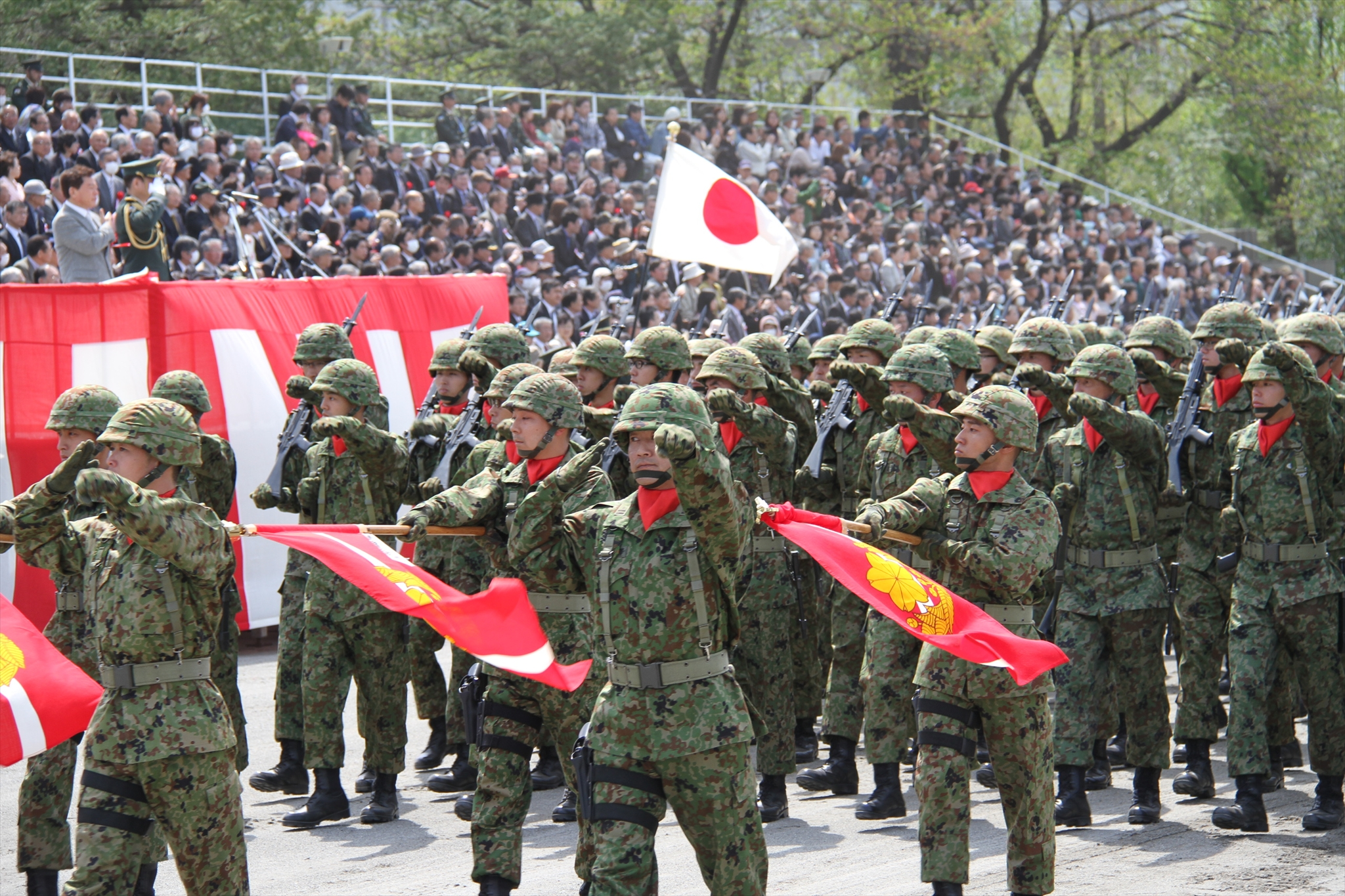 Title 第１師団創立５１周年及び練馬駐屯地創設６２周年記念行事・観閲行進（４月１４日、練馬駐屯地）.JPG Album Events and Public Relations (イベント・行事・広報活動等) 第１師団創立５１周年及び練馬駐屯地創設６２周年記念行事・観閲行進